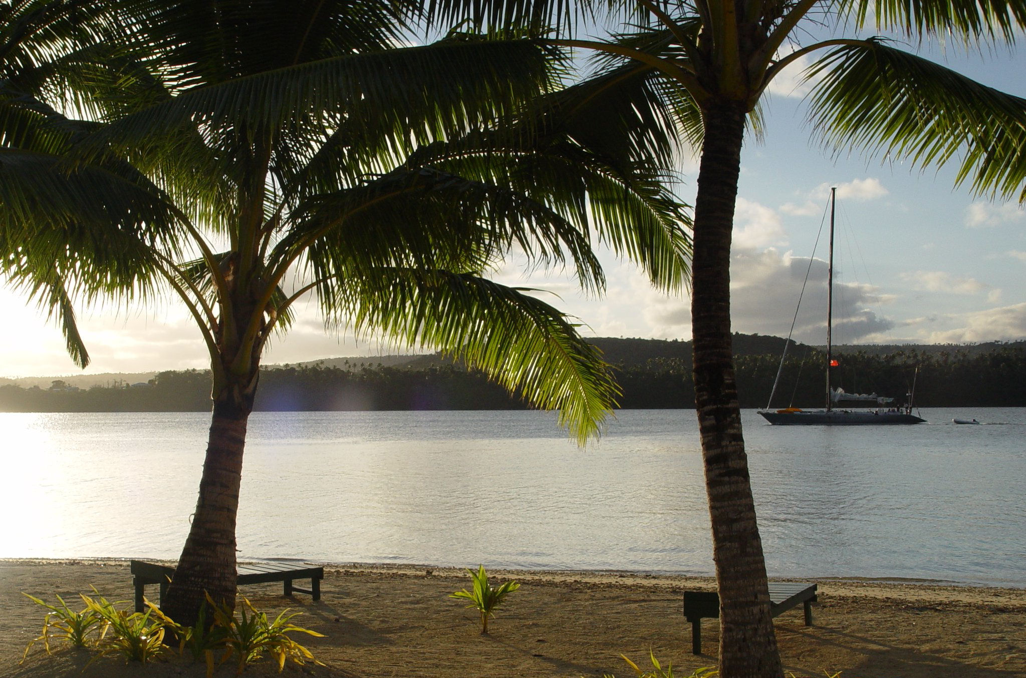 Beach on Vava'u, Tonga